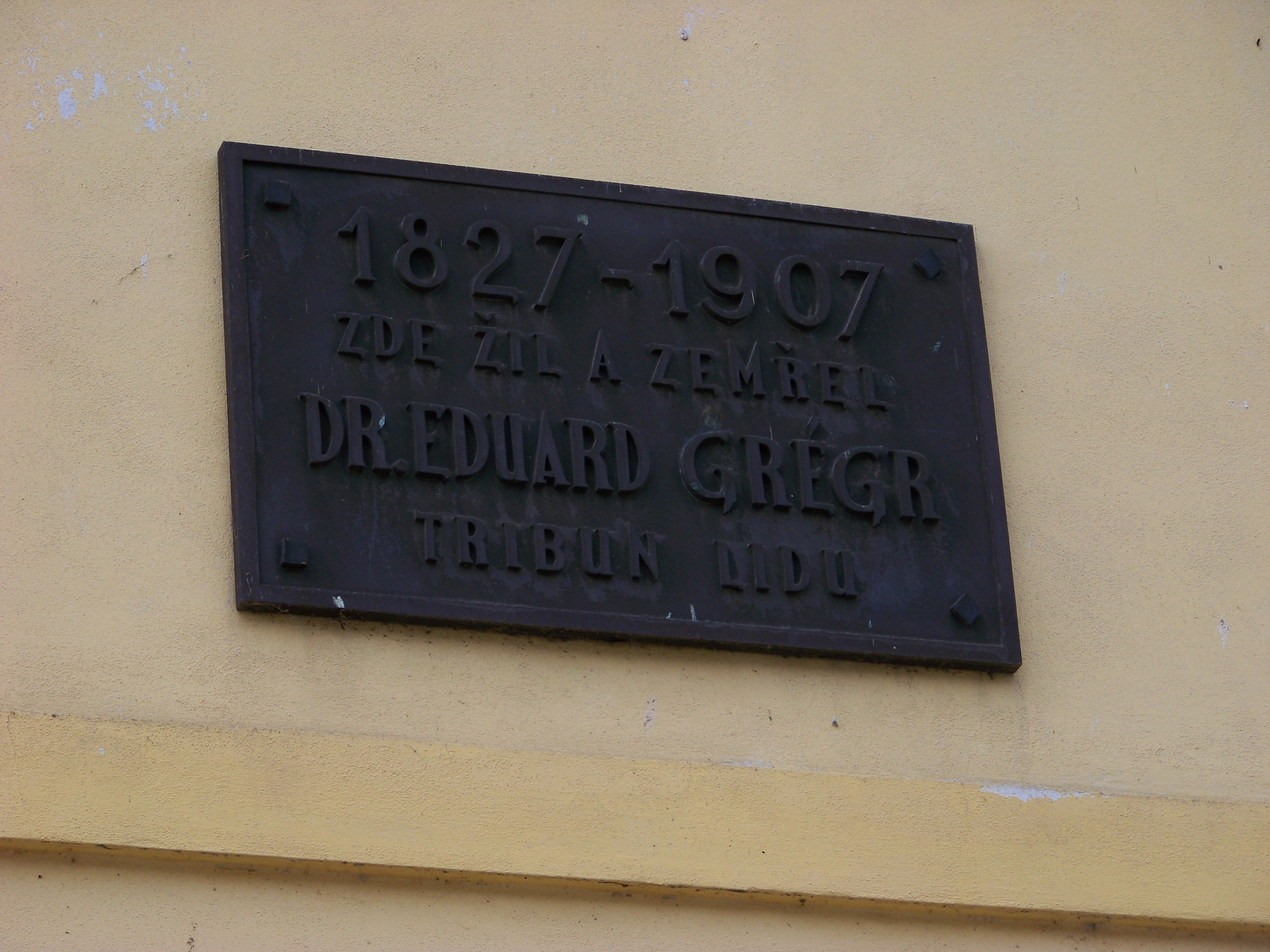 Lštění, Benešov District, Central Bohemian Region, the Czech Republic. Grégrova 26.